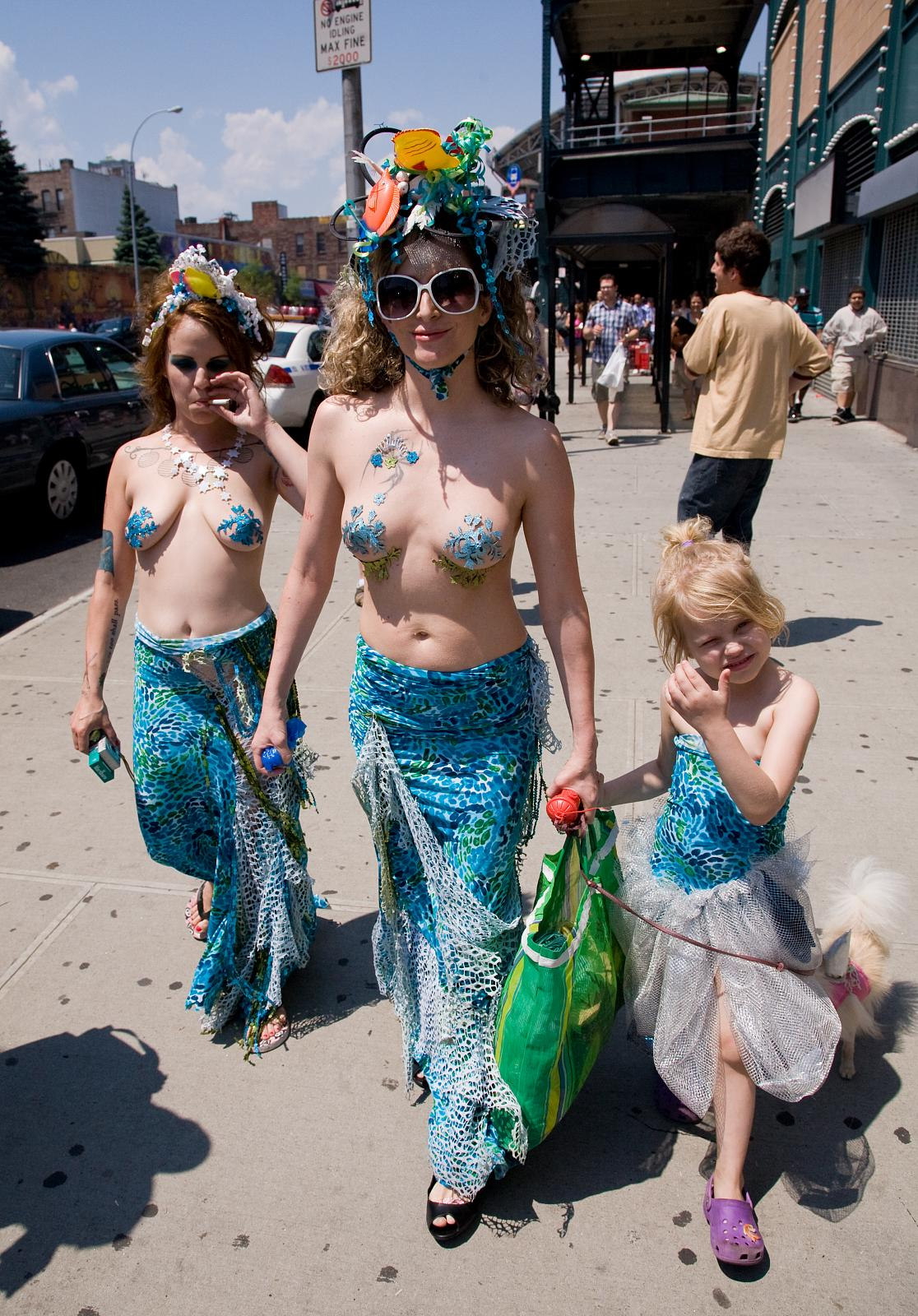 Coney Island Mermaid Parade 2008.